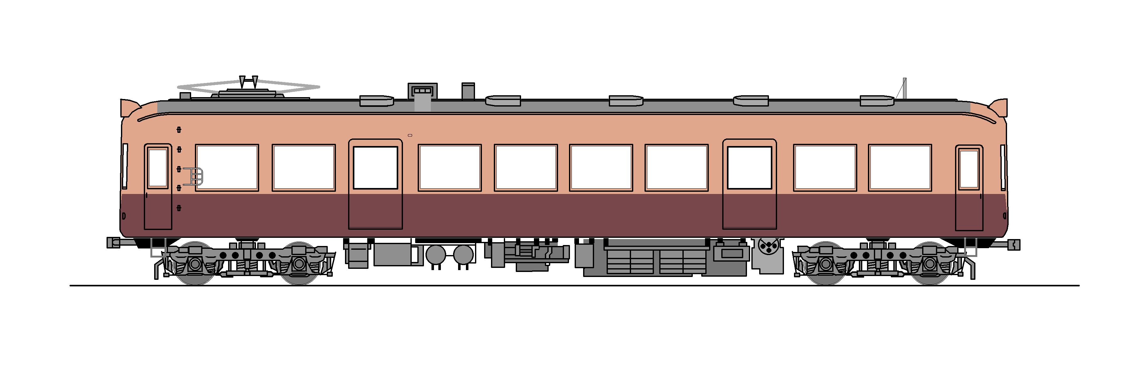 The side view of the EMU series 14790 of Toyama Chihou Railway.